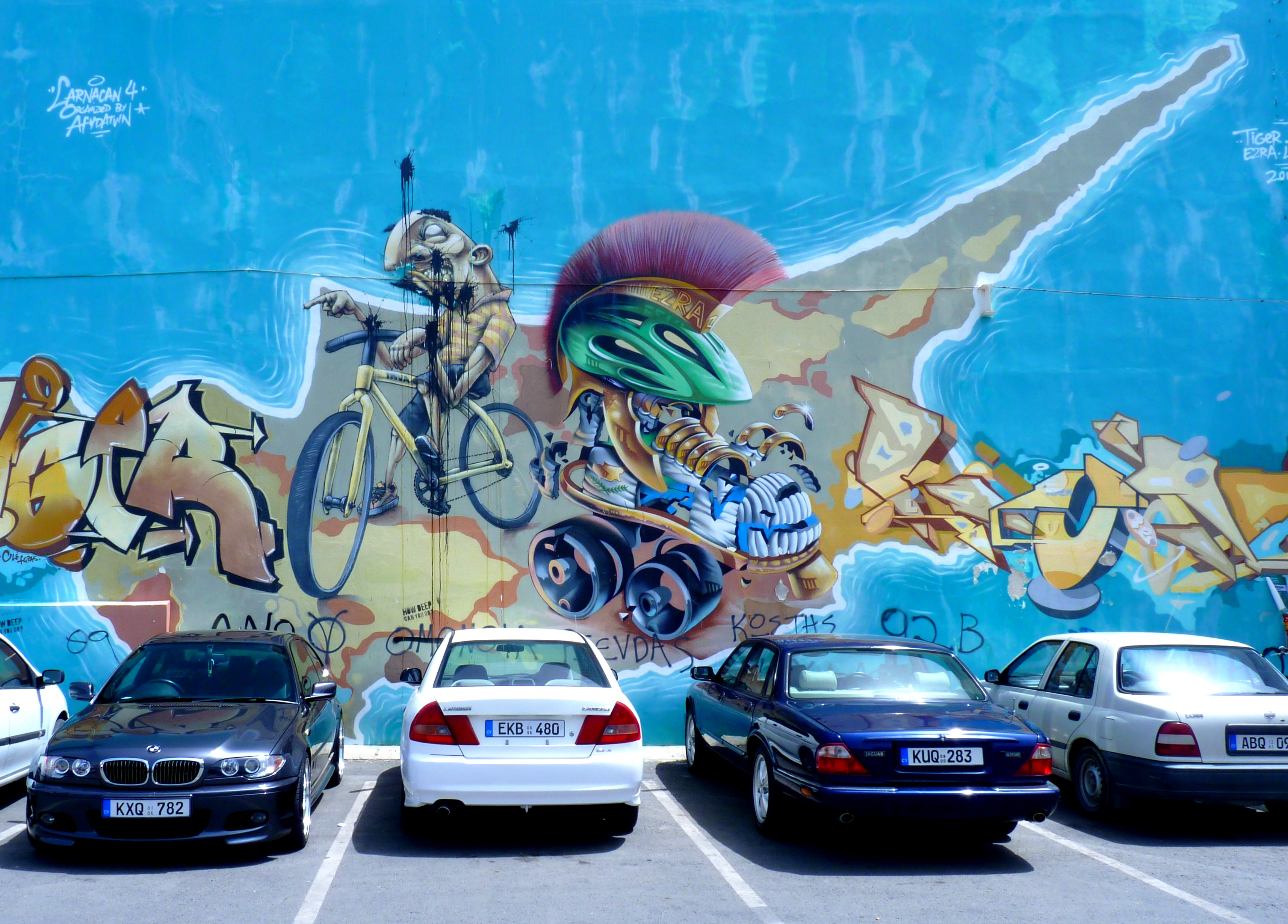 Graffiti in Nicosia